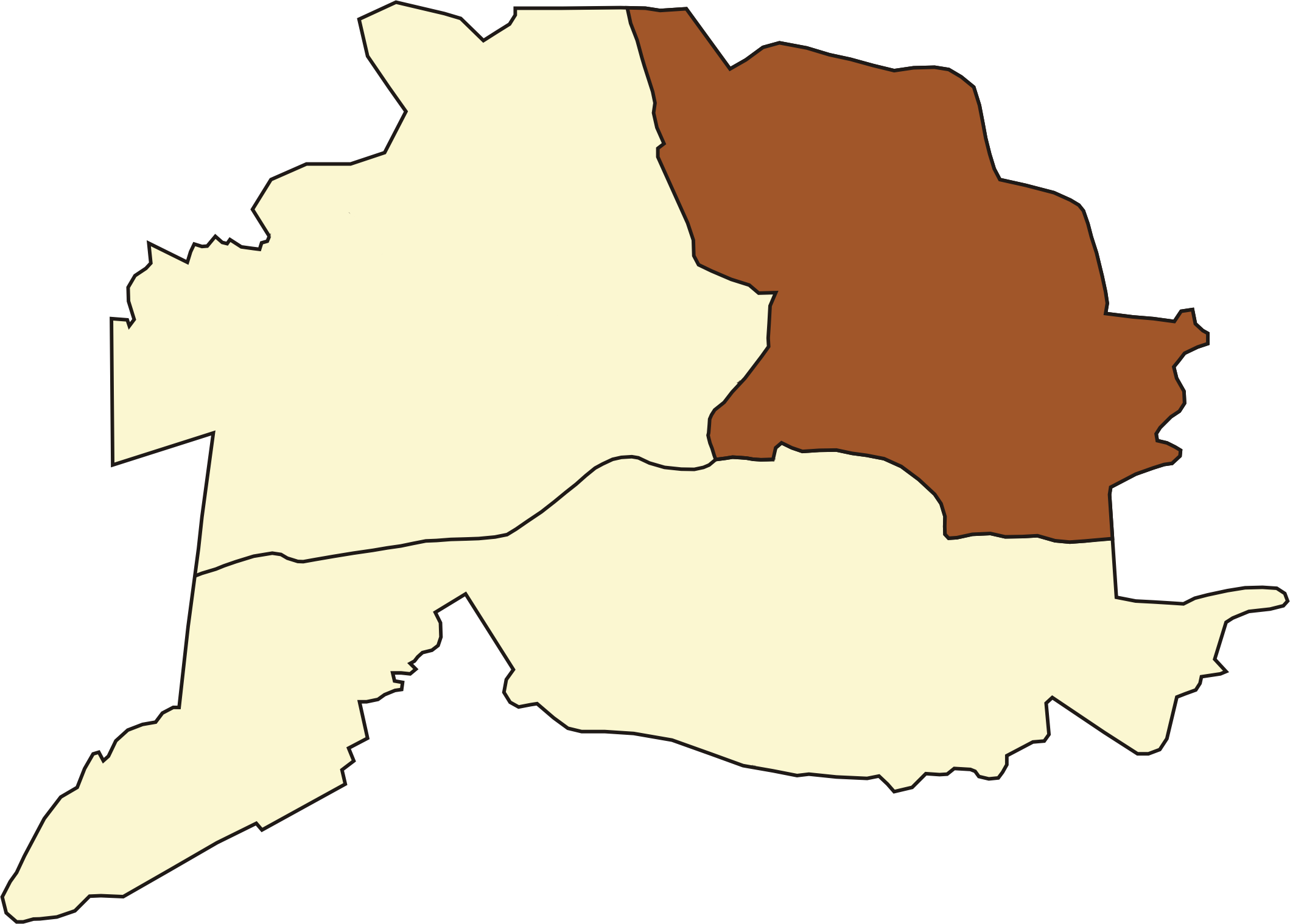 Leningradsky district of Kaliningrad on the map of Kaliningrad.